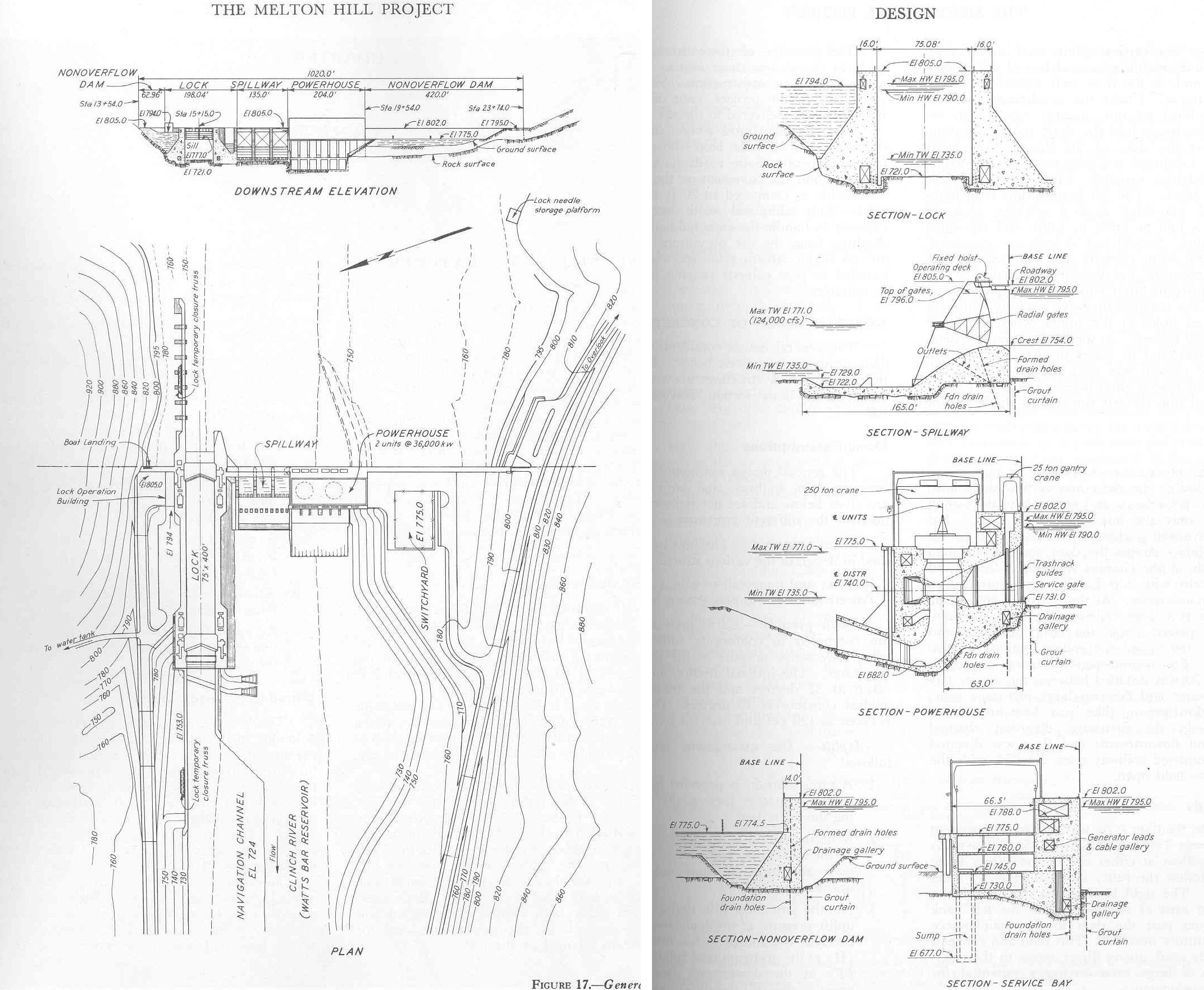 TVA's design plan for Melton Hill Dam, on the Clinch River in Roane County and Loudon County, Tennessee, USA. Note: The shading in the middle of the image is due to a page break, and not part of the original diagram.